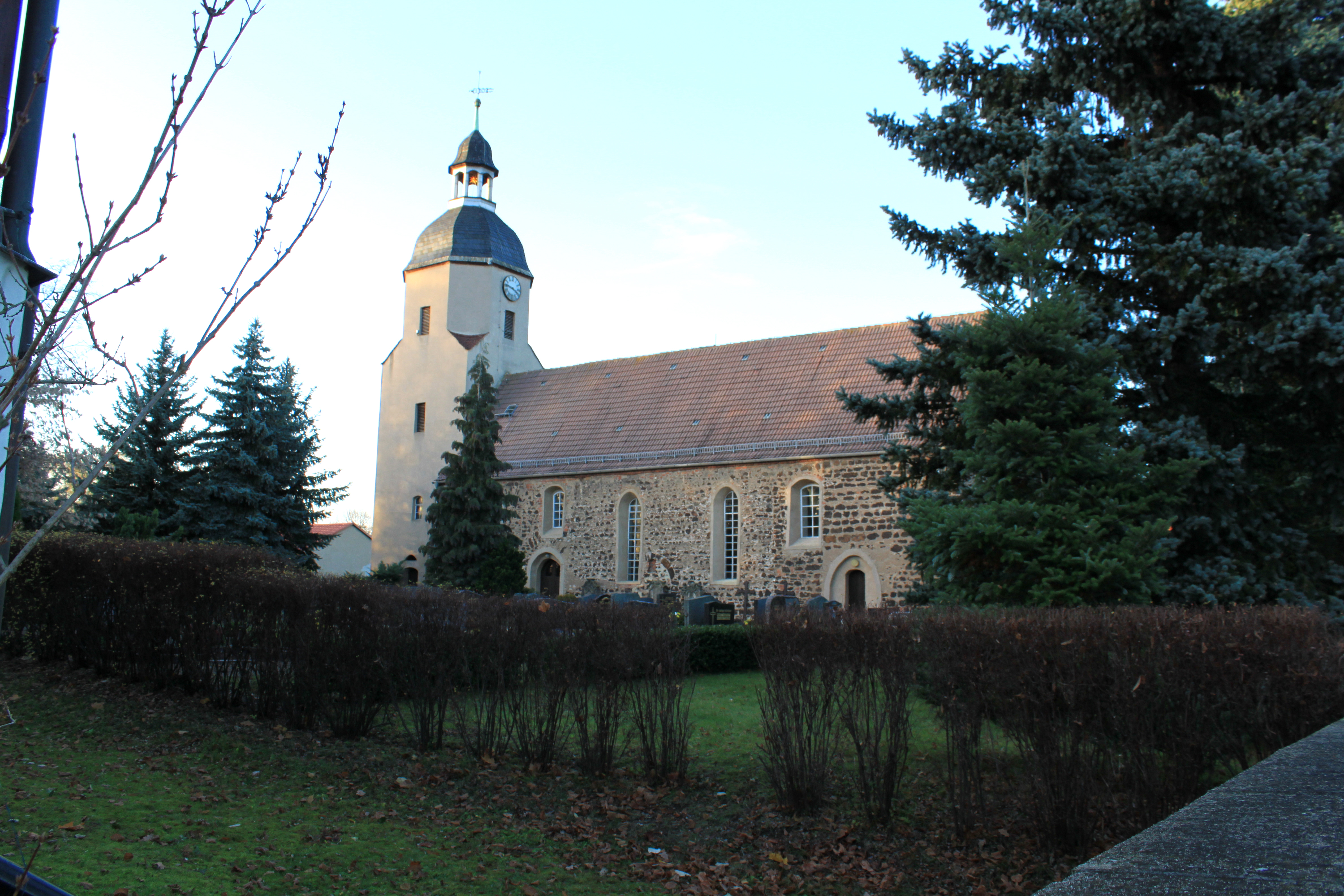 church in Schmerkendorf